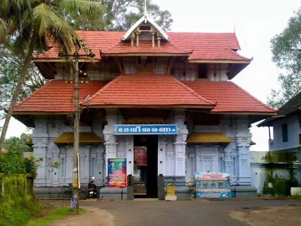 Urakam Temple Gopuram